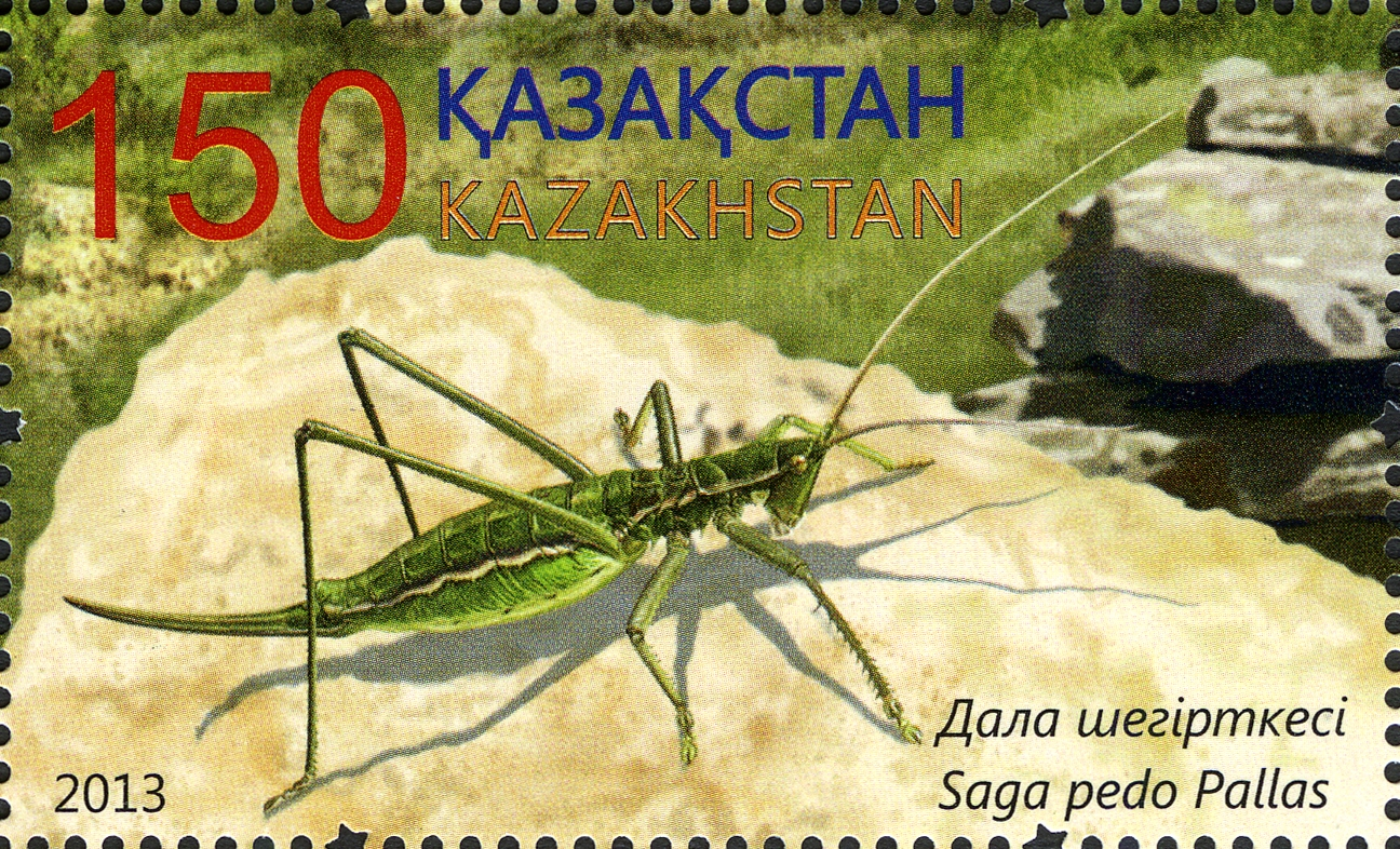 Stamps of Kazakhstan, 2013